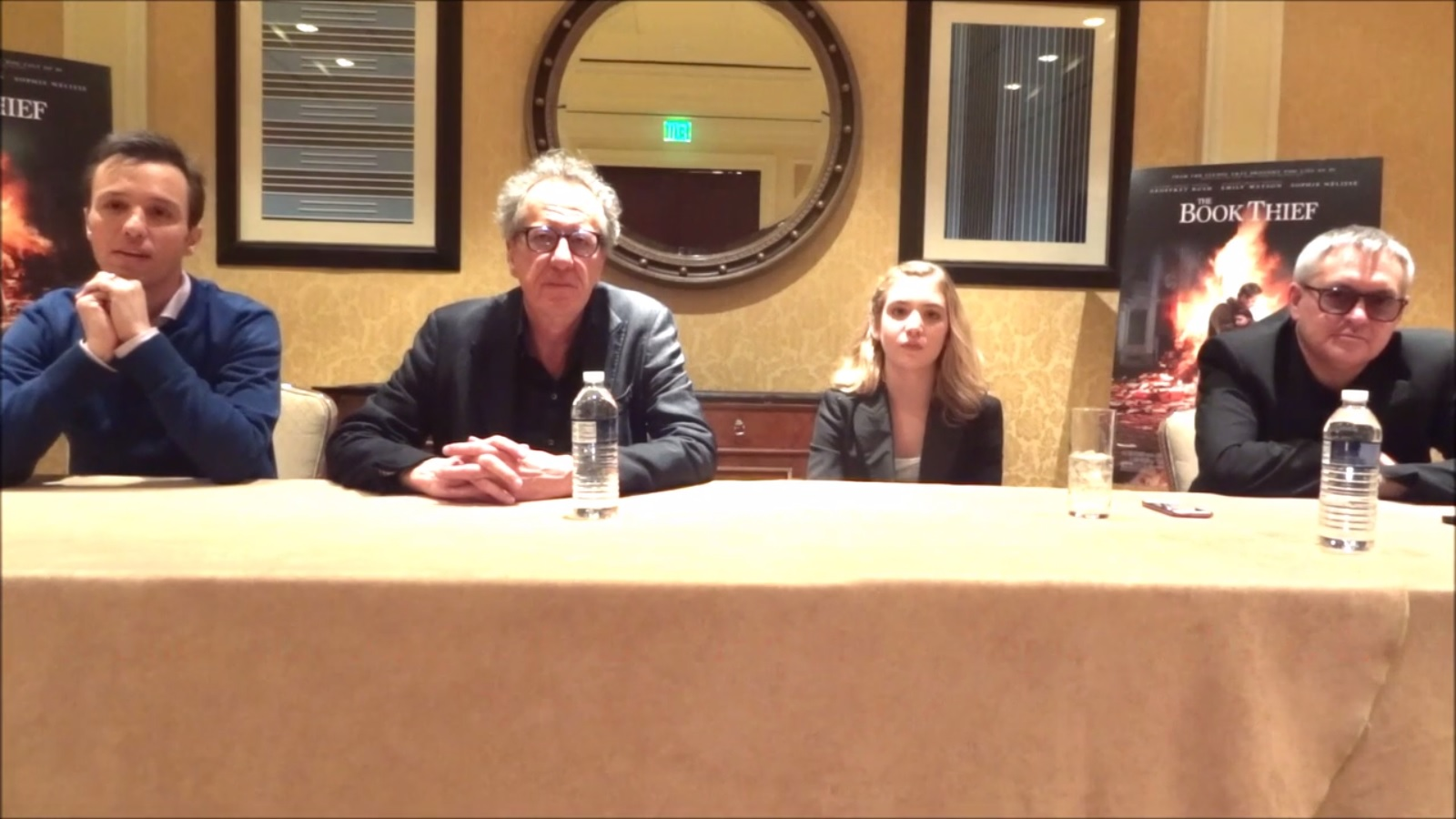 The Book Thief Interview with Author Markus Zusak, Director Brian Percival, Stars Geoffrey Rush & Sophie Nelisse. . Video Shot & Edited By Gadi Elkon for .